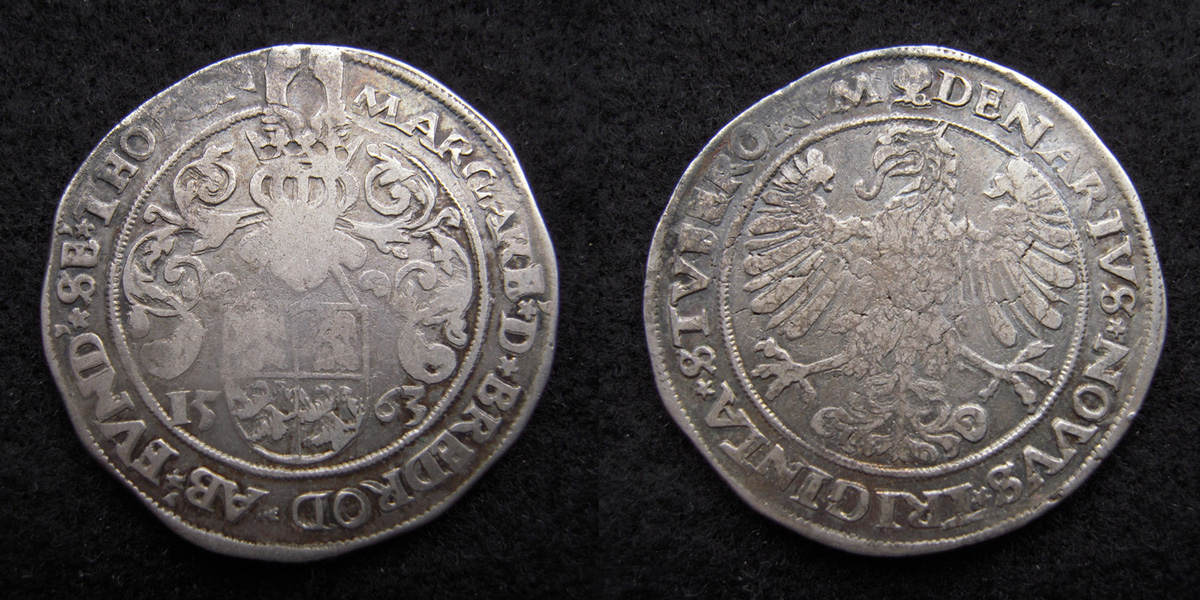 Silver dollar (Taler) issued in 1563 by Margaretha van Brederode, abbess of the German imperial Abbey of Thorn (German: Thoren, Thorn), in what is today the Netherlands (Thorn).